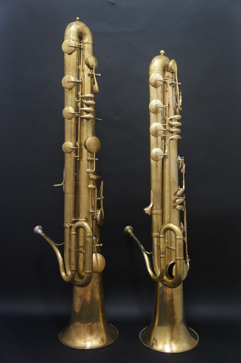 Left to Right Bass Ophicleide in B flat, 10 keys, by Gustave RÉZEAU ca. 1860 Bass Ophicleide in C, 11 keys, by Couesnon & Cie. ca 1900